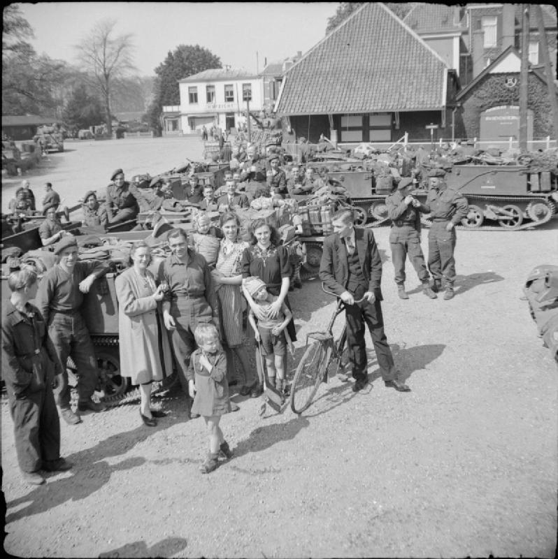 The British Army in North-west Europe 1944-45 Carriers and troops of the Hallamshire Battalion, 49th (West Riding) Division, with civilians in the Dutch town of Ellekon, 16 April 1945.